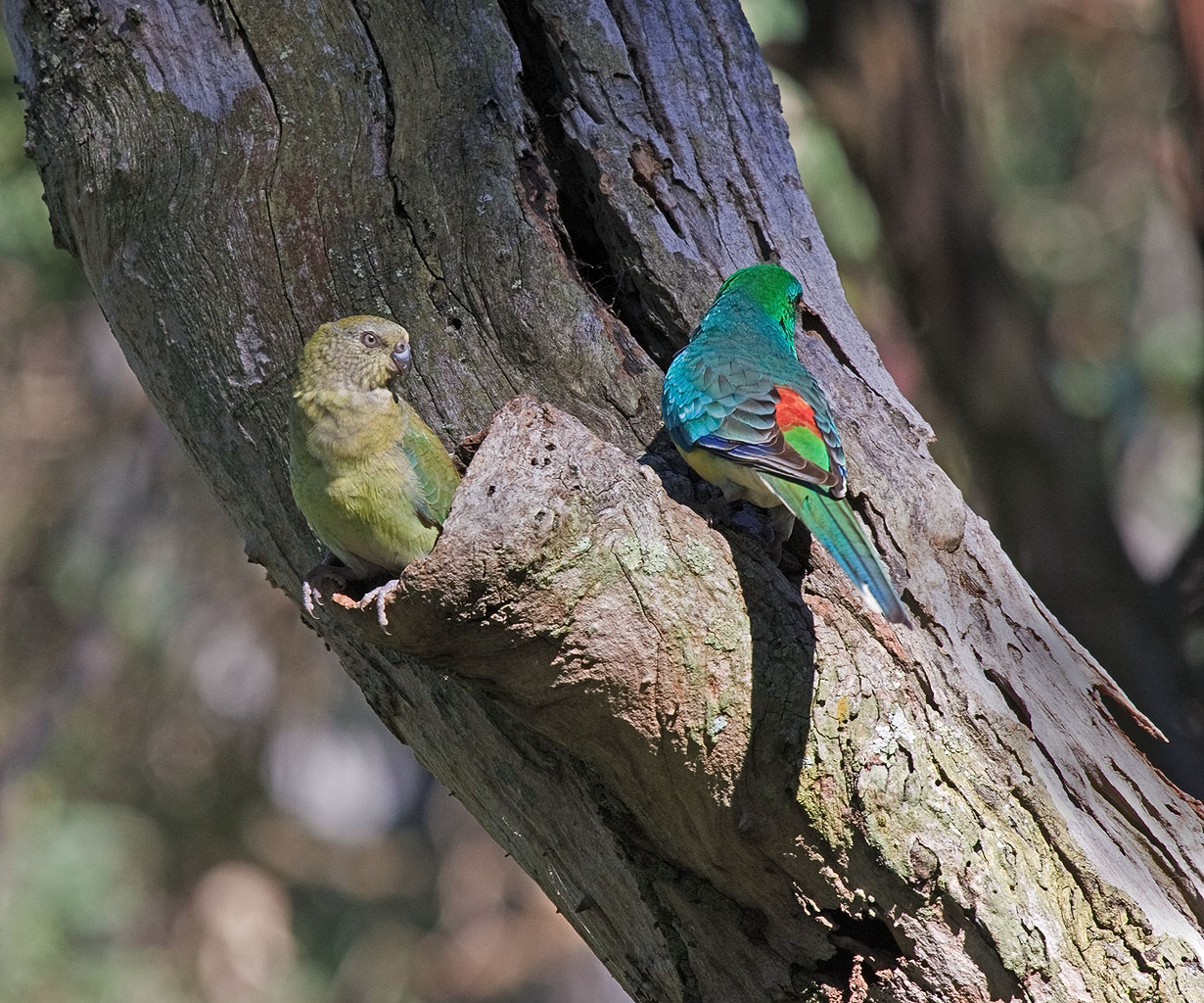 A pair of Red-rumped Parrots at Crestwood Reserve, Baulkham Hills (suburban Sydney), Australia.